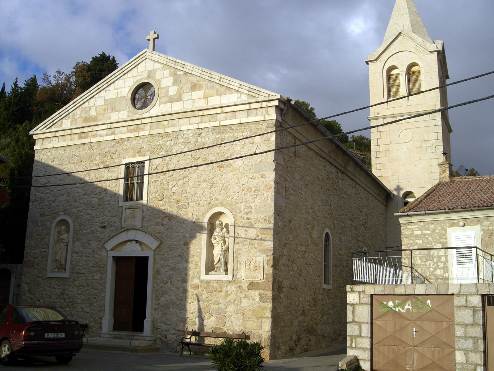 Church in Jablanac, CroatiaHrvatski: Crkva u Jablancu, Hrvatska